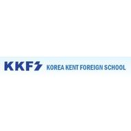 Korea Kent logo file